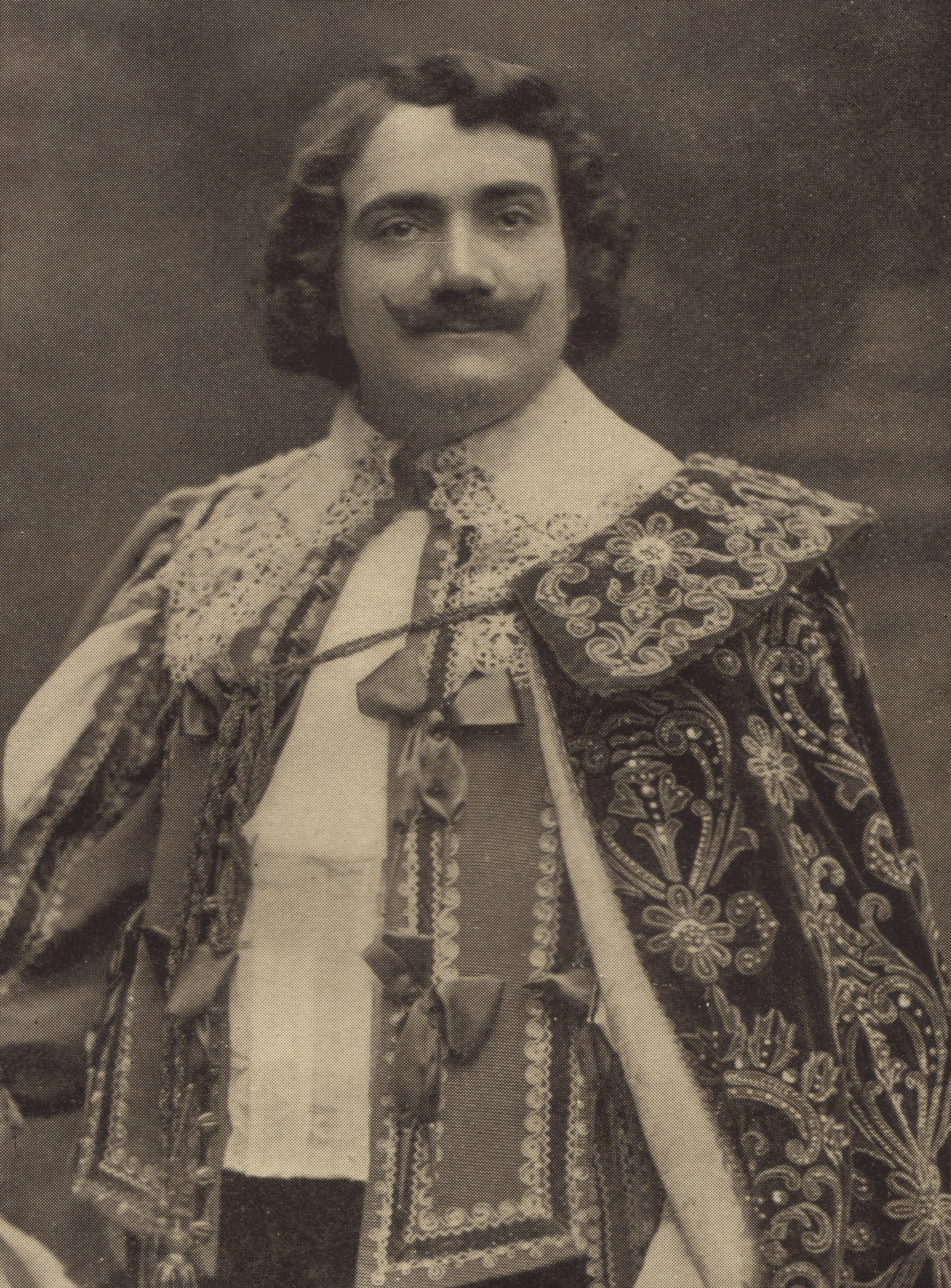 Scanned from Modern Musicians by J. Cuthbert Hadden (First published by T.N. Foulis in 1913) - September 1918 Foulis reprint. Book is in the Public Domain in the US and UK. Scanned as 1200 dpi bitmap (photo) then converted to jpeg.